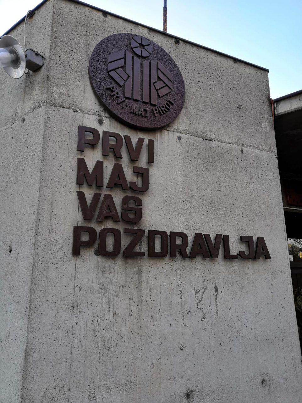 Entrance in firm Prvi maj Pirot